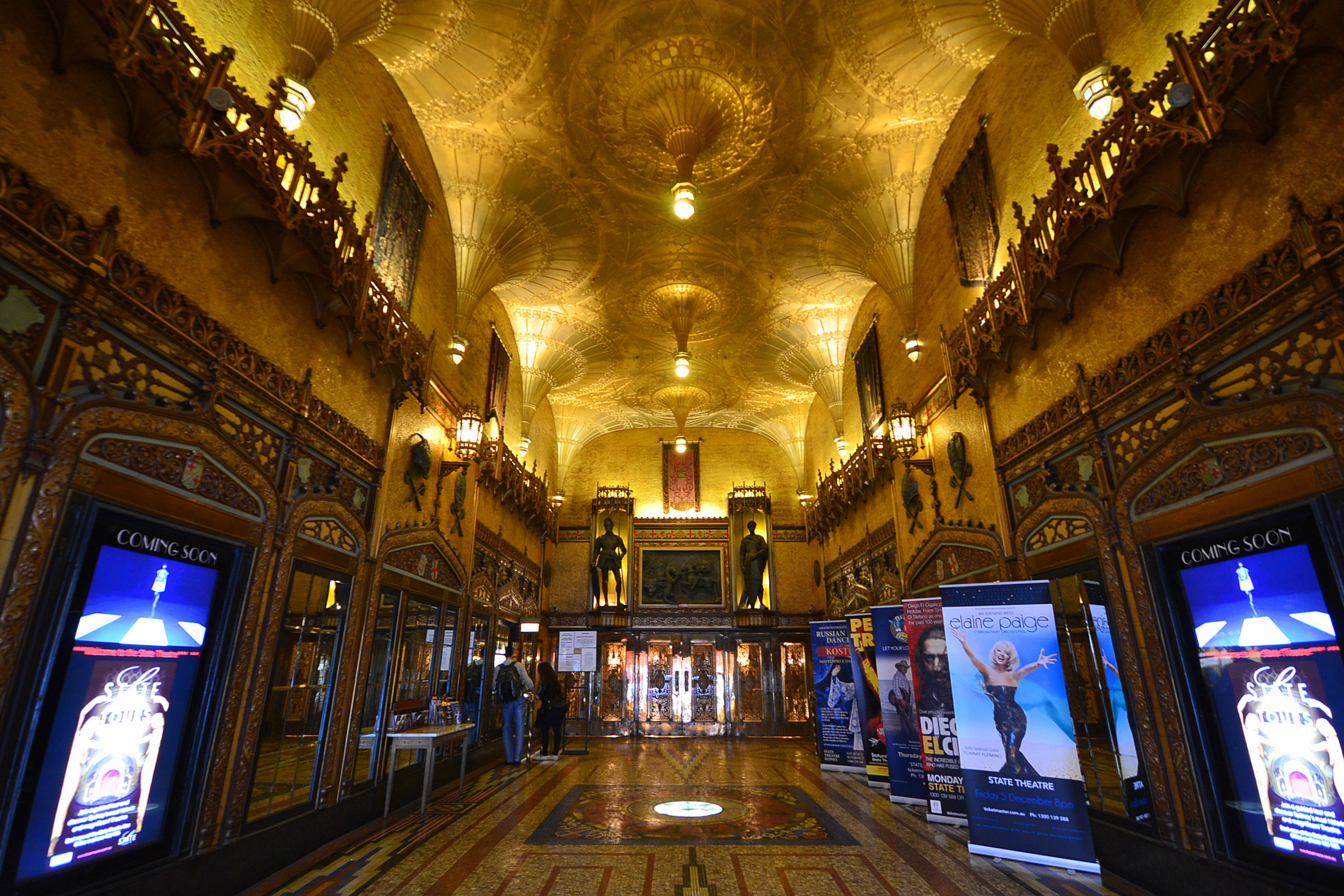 State Theatre, Sydney